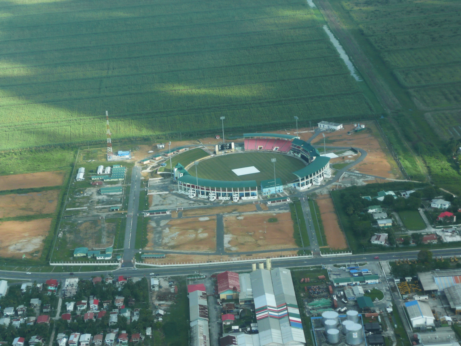 Guyana National Stadium from Air